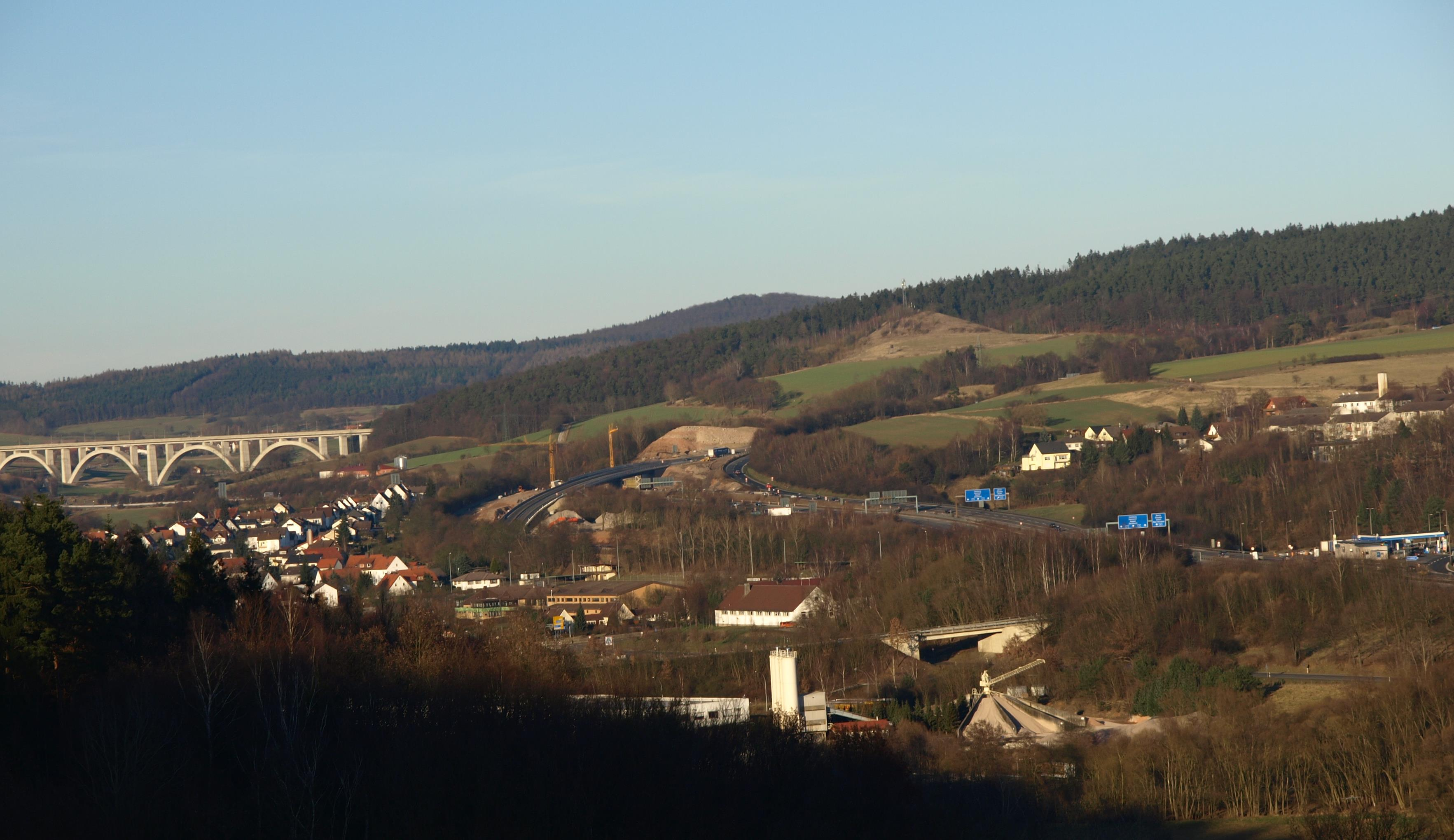 Trumpet interchange in Kirchheim (Hessen) between Autobahn 7 und Autobahn 4, on the left a railway bridge of the High-speed railway Hannover–Würzburg